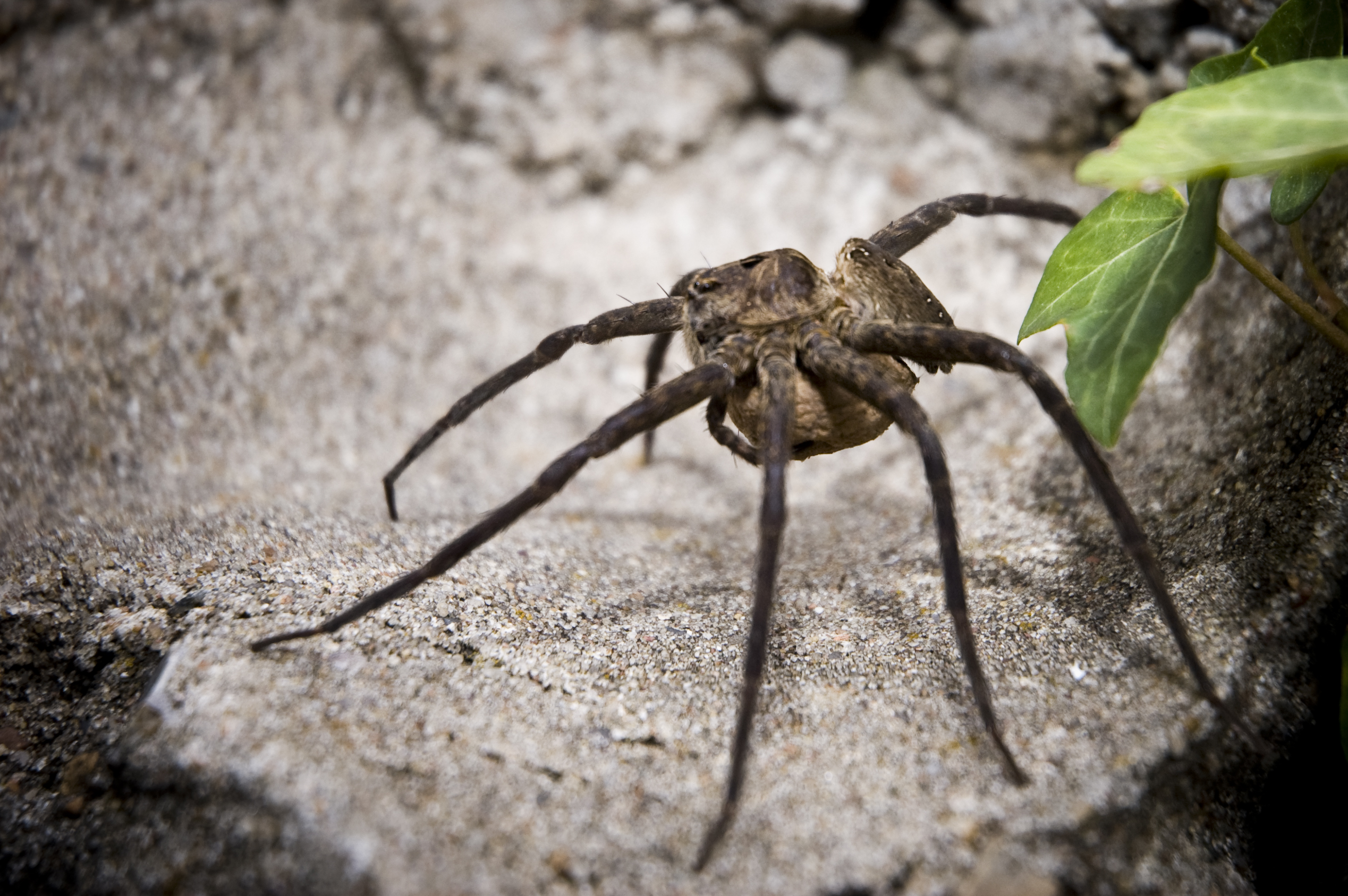 Unknown spider